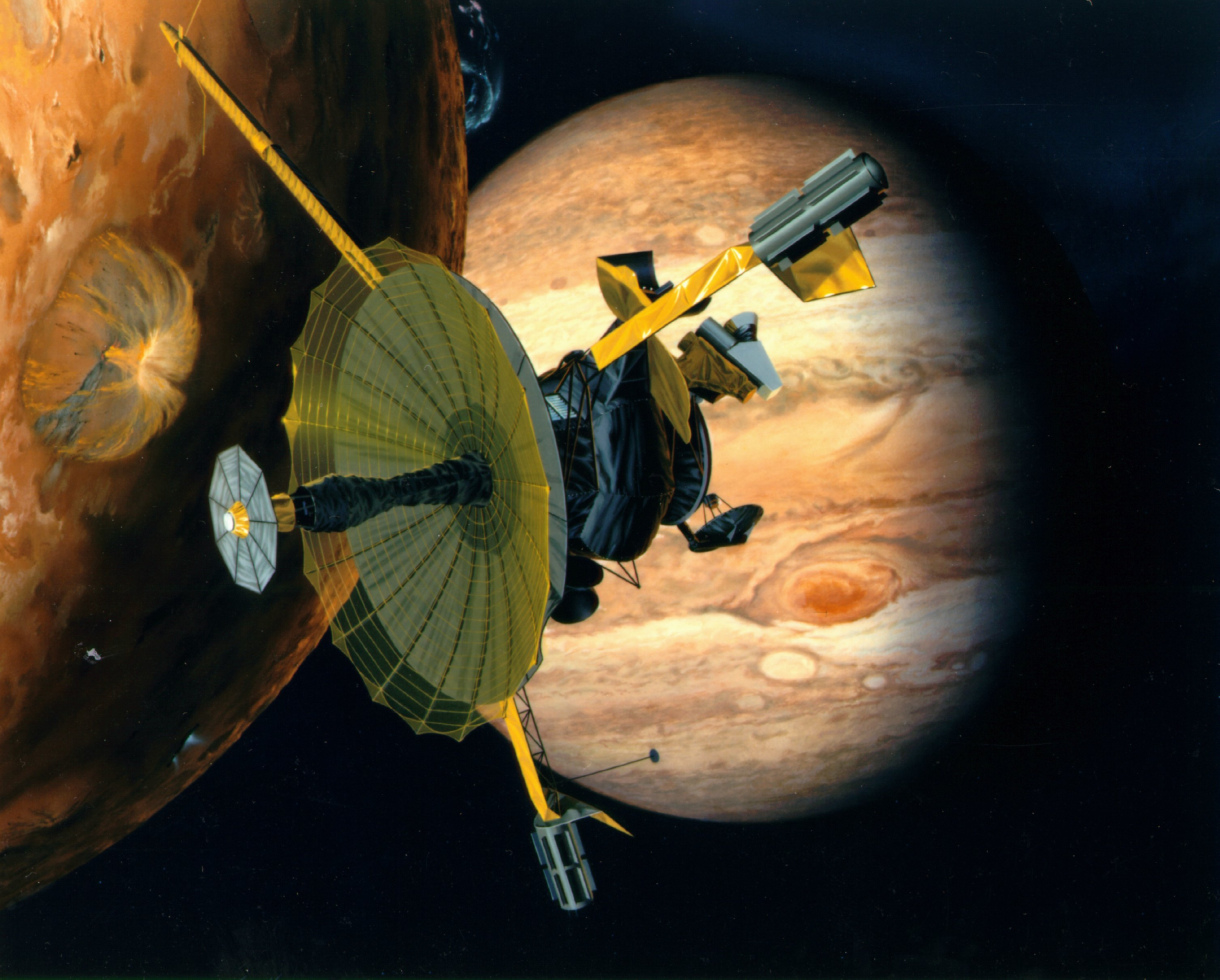 Artist's rendering of NASA's Galileo spacecraft flying past Jupiter's moon Io. Galileo made multiple close approaches to the volcanically active moon during its time at Jupiter, including a first pass in Dec. 1995, during its arrival in the Jupiter system.